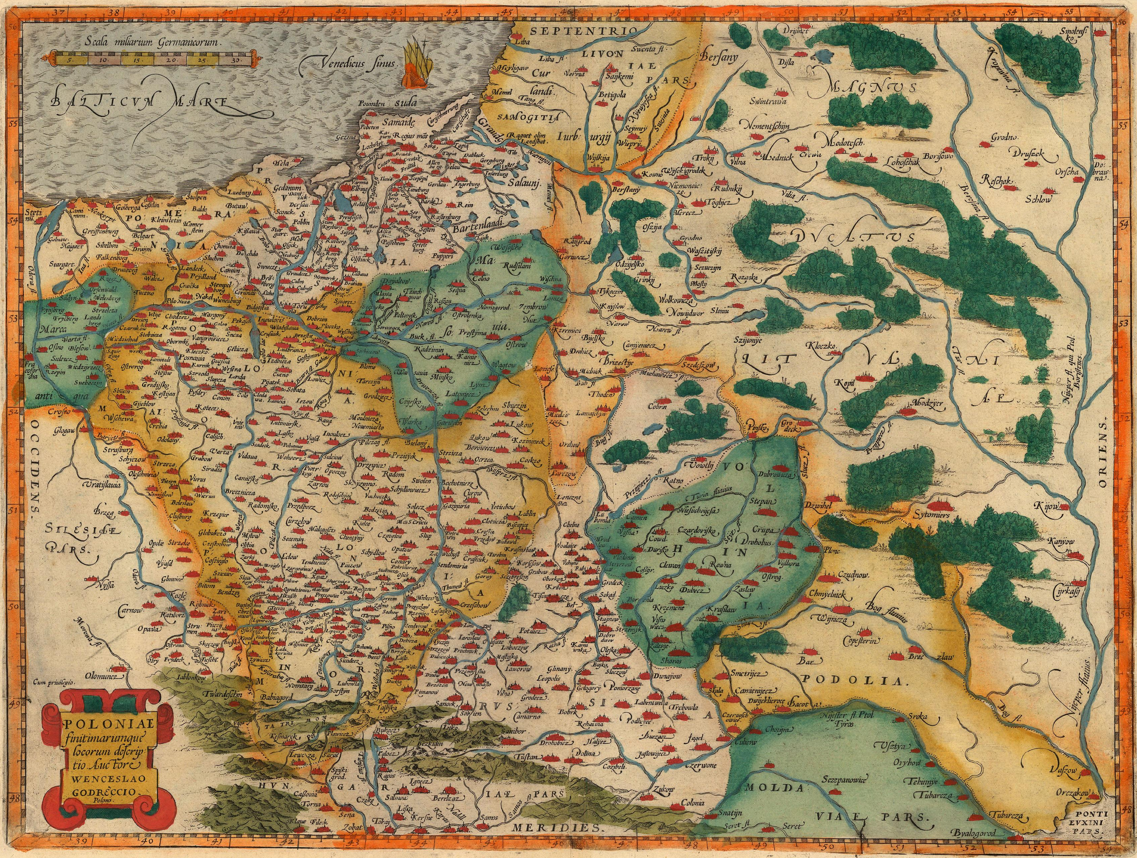 Map of Poland, researched and probably drawn by Wenceslaus Godreccius, printed by Abraham Ortelius in his Theatrum Orbis Terrarum in 1592 (first edited perhaps in 1578). An interesting feature are Polish names even outside the Polish Commonwealth, especially in Silesia.